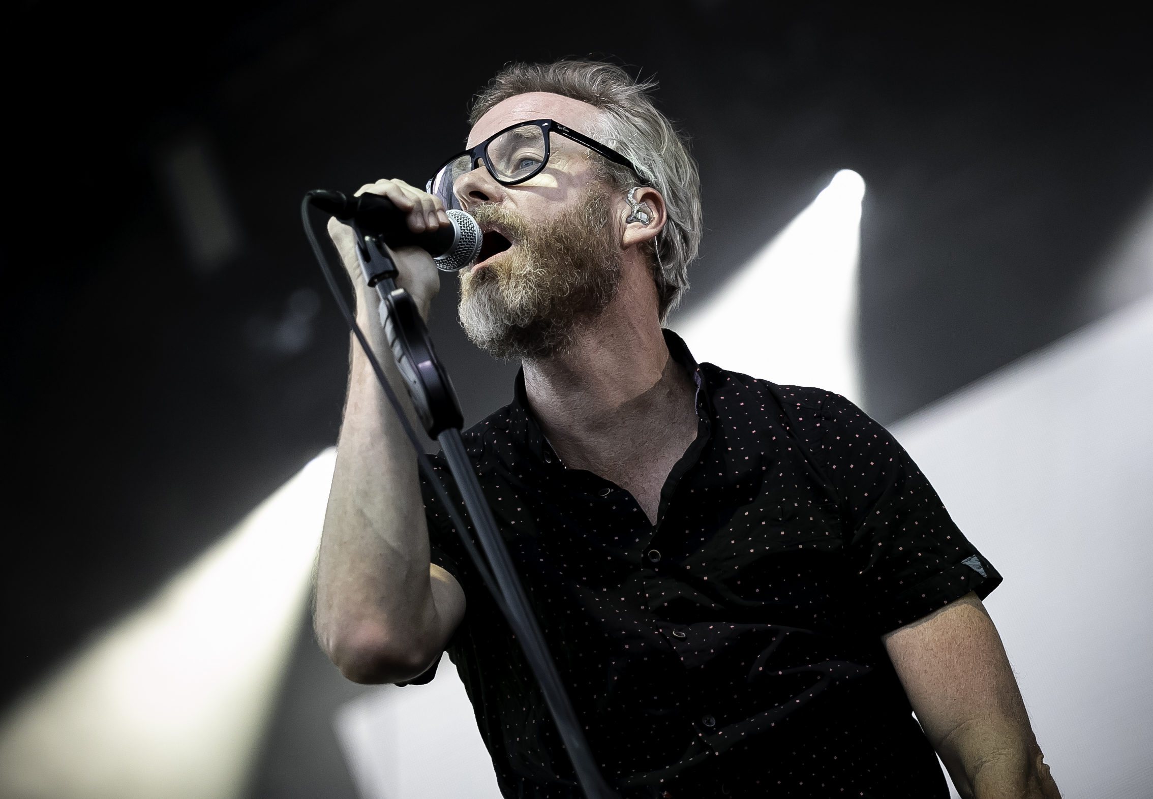 Matt Berninger performing in 2019